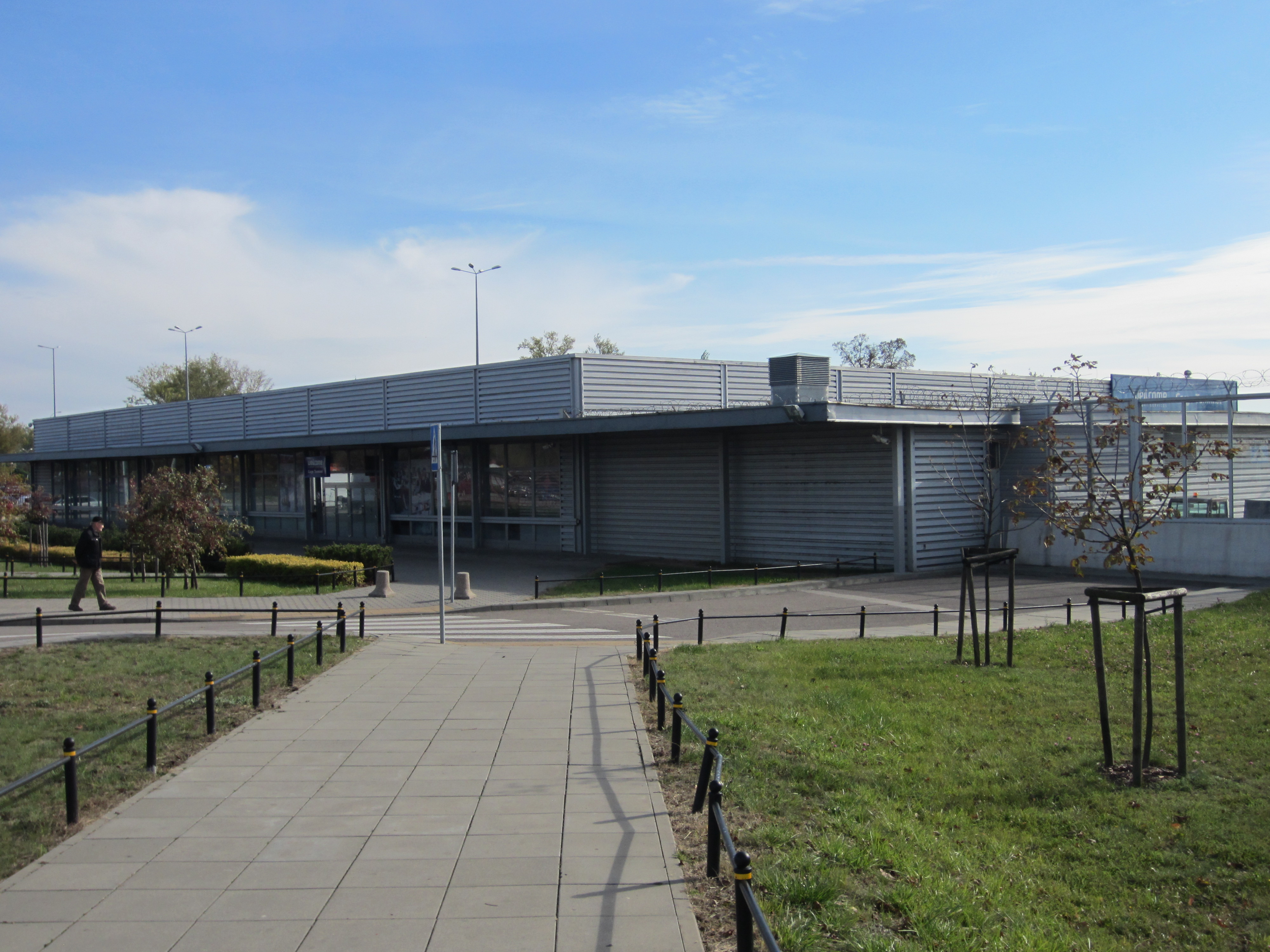 W-AS Cargo Terminal on Chopin Airport in Warsaw.